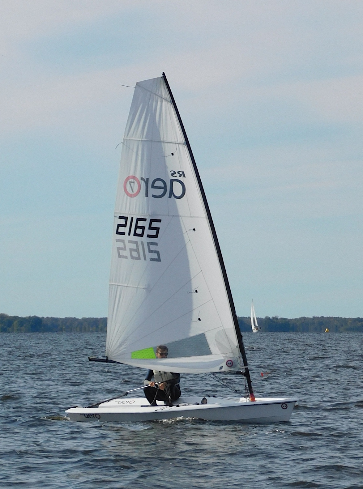 An RS Aero 7 sailboat.